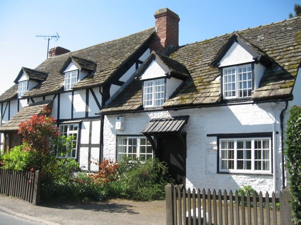 Olde-worlde facades, Eardisley (Herefordshire)